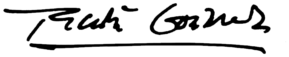 Signature of Felipe González.